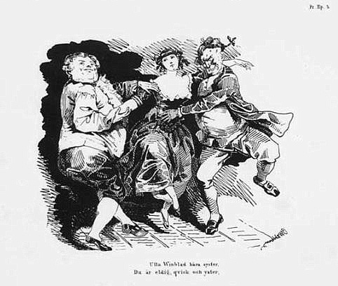 Illustration for "Ulla Winblad, beloved sister. You are fiery, quick and frisky...", Fredmans Epistle No. 3, by Carl Wahlbom (1810-1858)